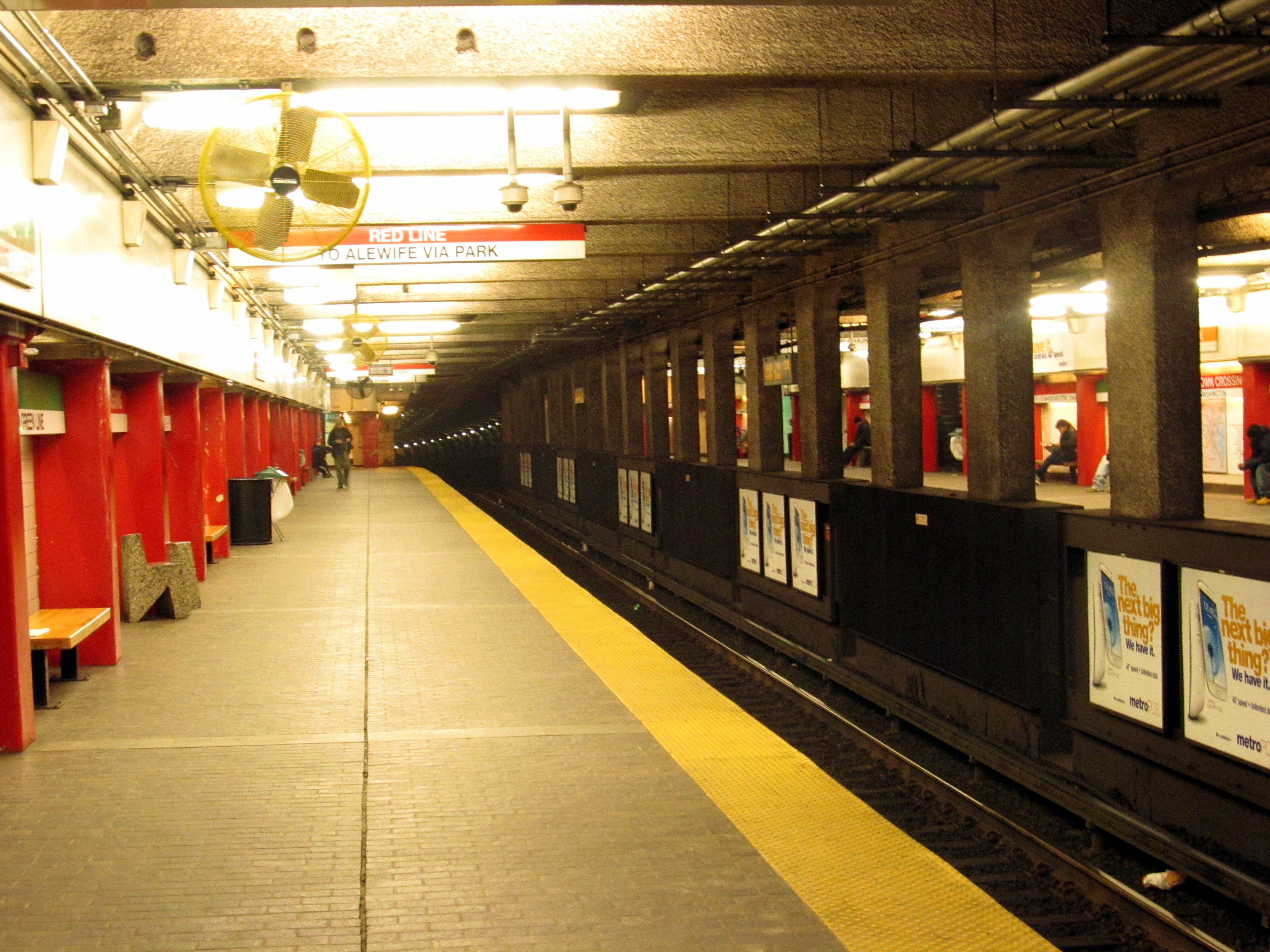 Northbound Red Line platform at Downtown Crossing station